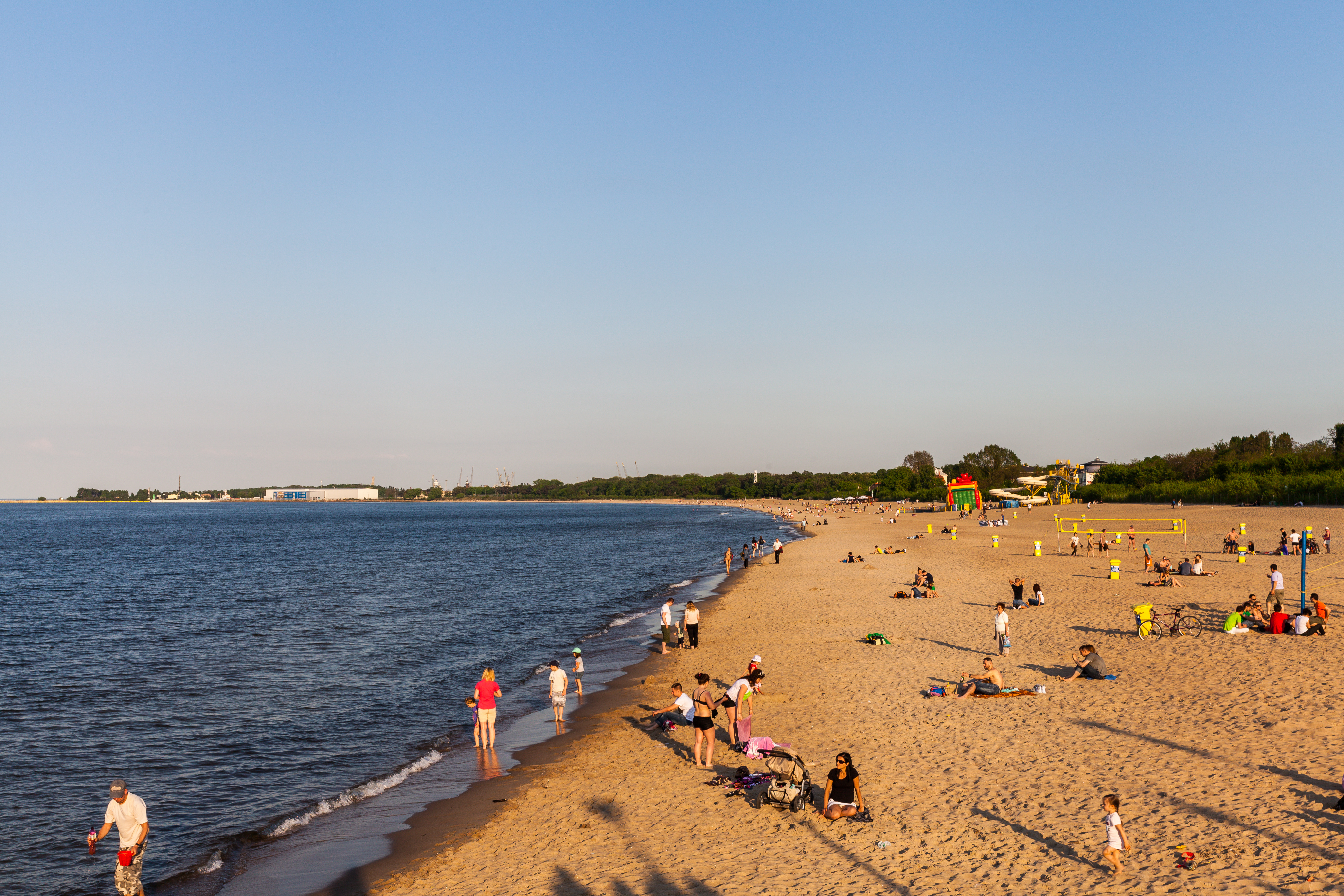 Beach of Brzezno, Gdansk, Poland